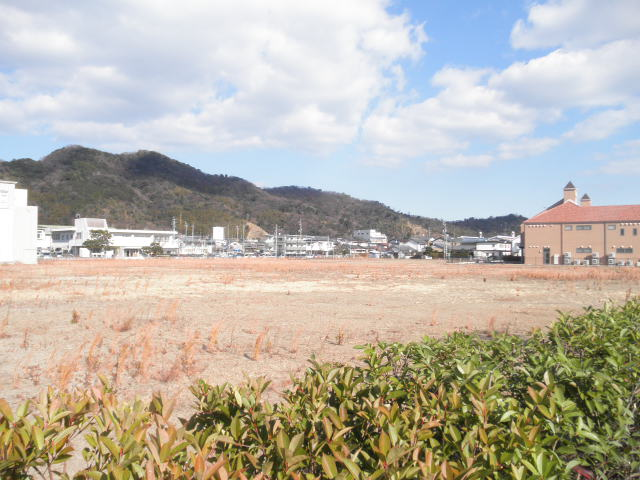 The Tokushima Red Cross hospital former location The developmental disability specialty special support school "school construction planned site high with all"